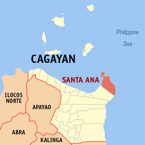 Map of Cagayan showing the location of Santa Ana